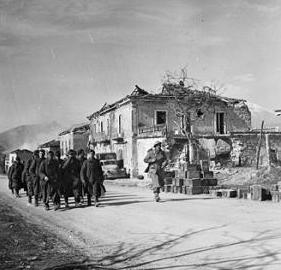 German troops, captured by Maoris from the New Zealand division, march to a prisoner of war camp at Cassino, Italy, February 1944